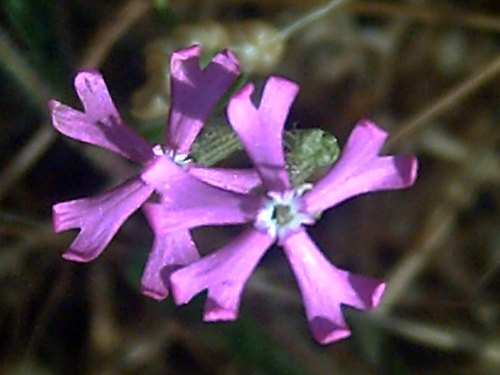 from Sierra Madrona